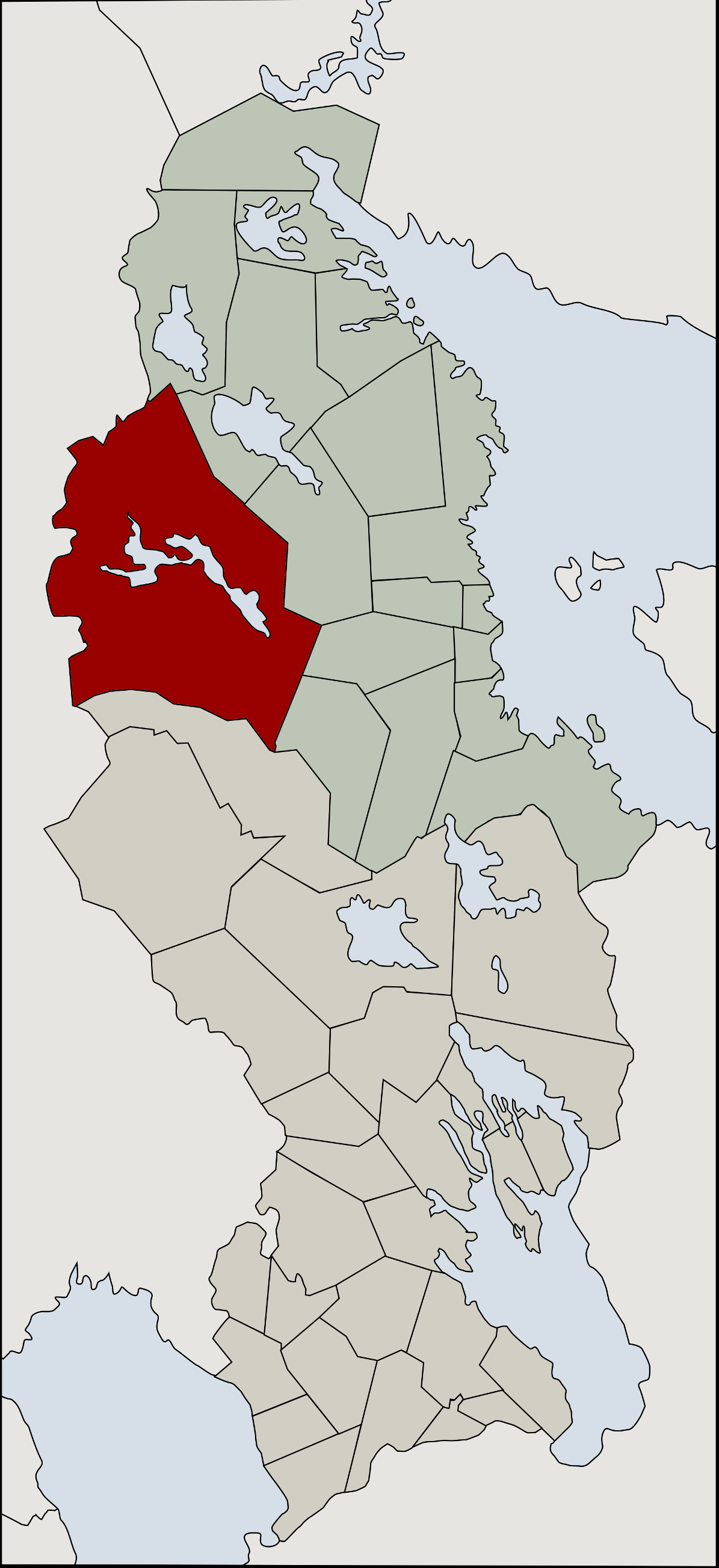 Map of the Republic of Uhtua